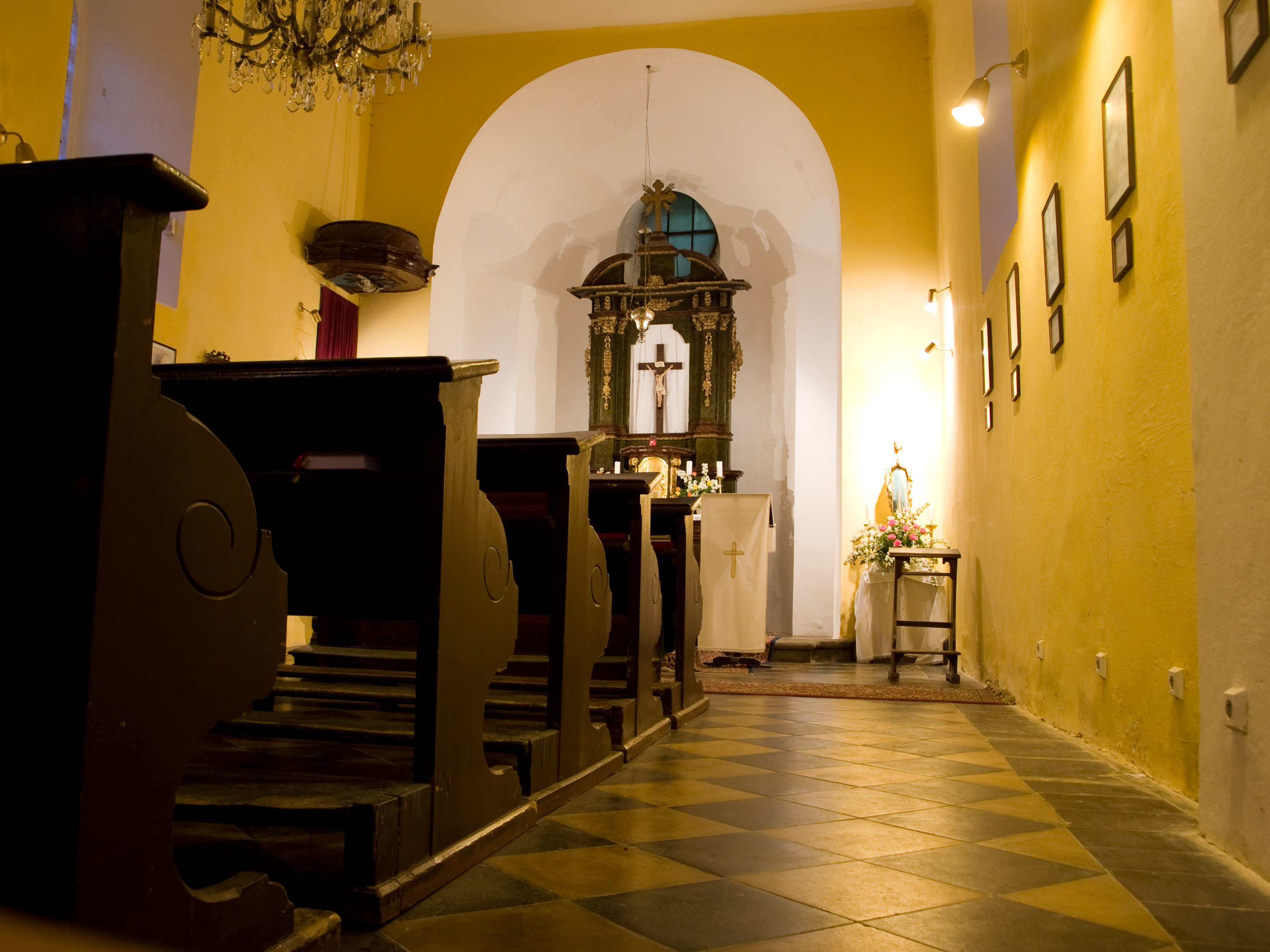 Church of Lawrence, Jinonice, Prague